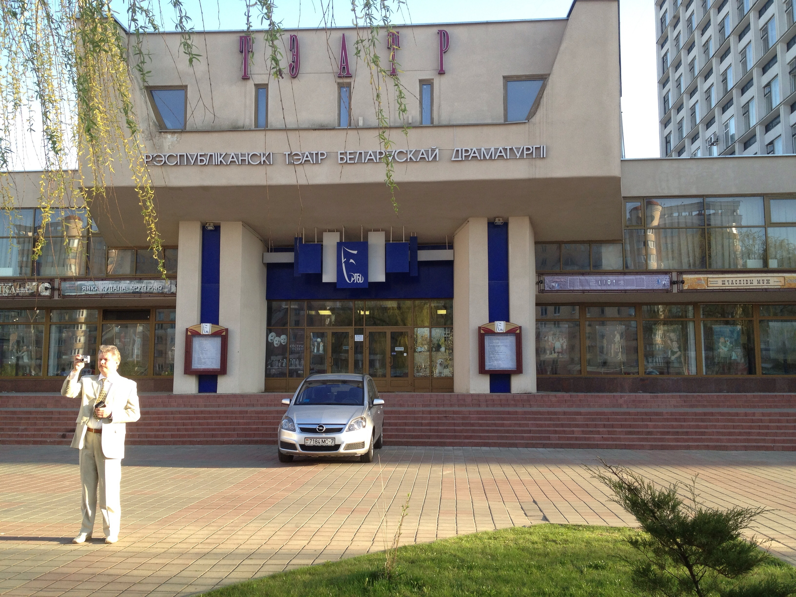 republican Belarusian Drama Theater